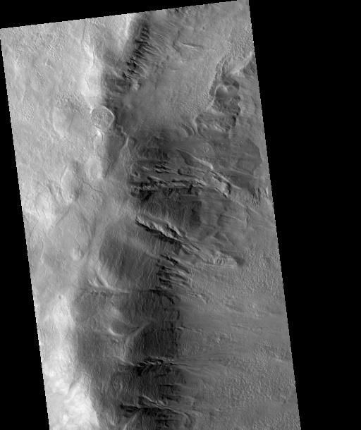 Chincoteague Crater as seen by hirise. Location is 41.2 N and 123.8 E.